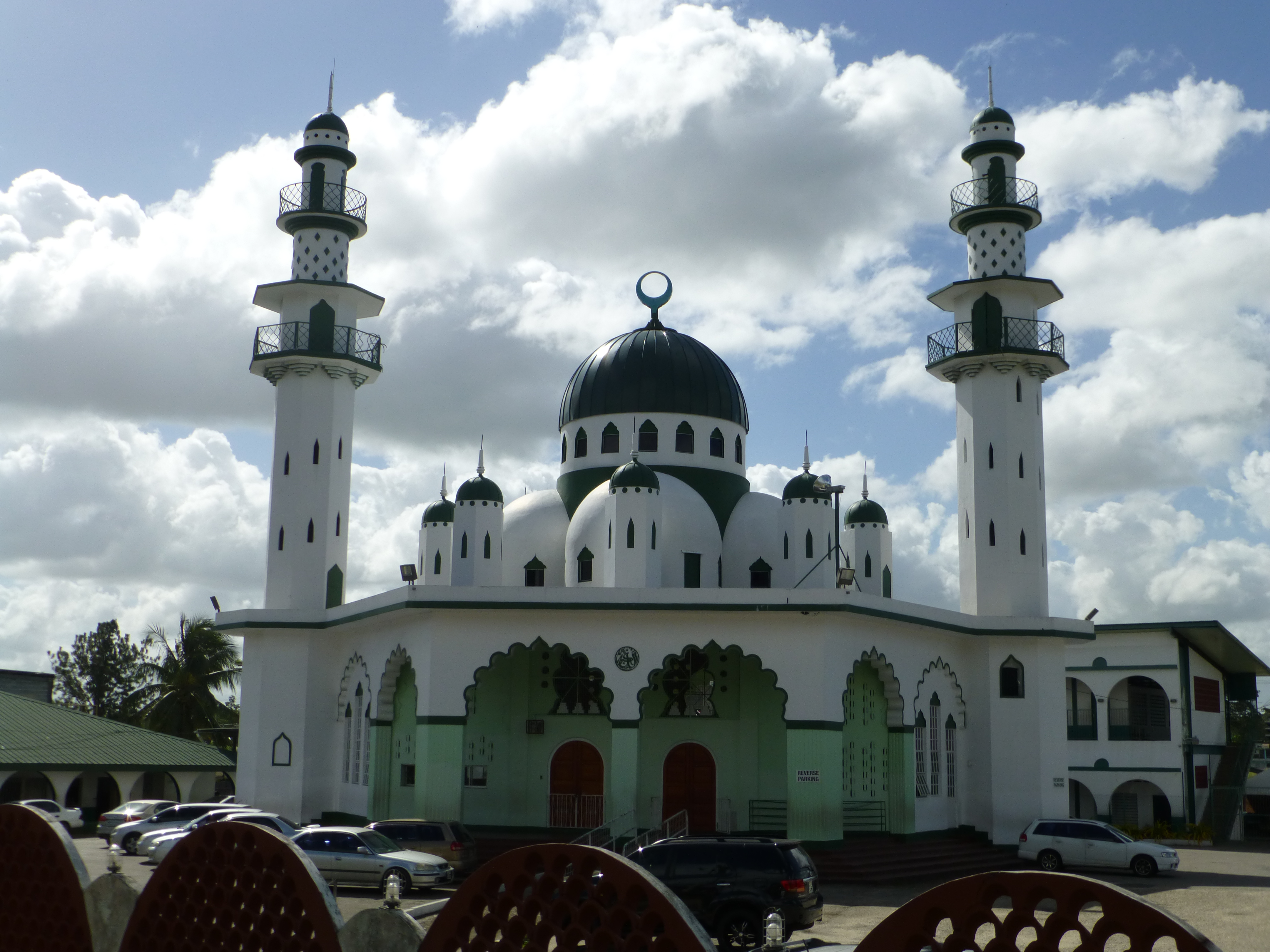 Mohammed Ali Jinnah Memorial Mosque, St. Joseph, Trinidad.